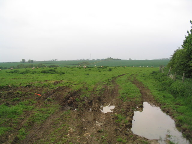 Temple Hill, South Witham. The Kinight's Templar founded a preceptory here in the 12th century. There's little to see now apart from some bumpy ground.